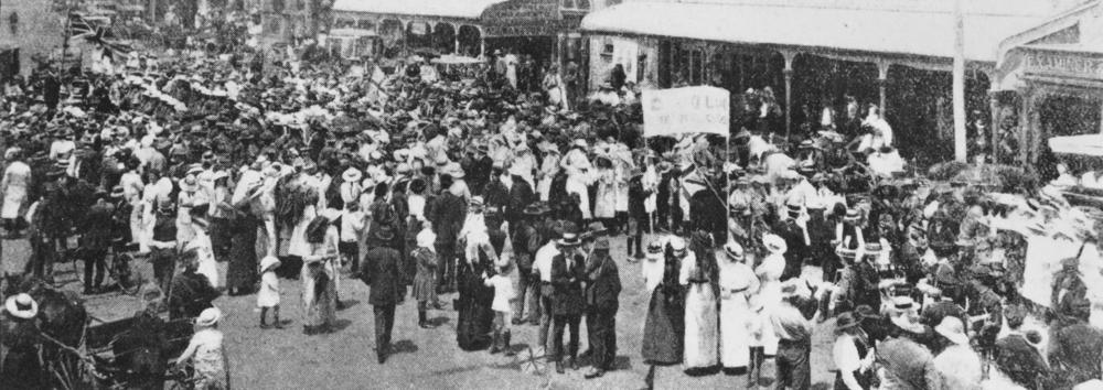 Crowd gathers at the start of the Dungarees March in Warwick, 1915 The caption below the photograph reads: 'Presentation of a Union Jack by the Mayor of Warwick to the volunteers at the outset of their march from Warwick to Brisbane.' (Description supplied with photograph.).